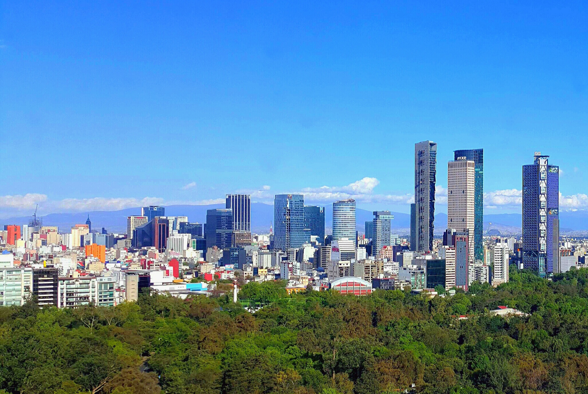 A view of Reforma avenue skyline and Chapultepec park.